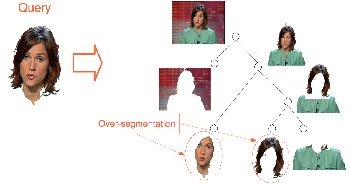 A screenshot of a program called GOS, developed by the Universitat Politècnica de Catalunya, and licensed by CC (Creative Commons)